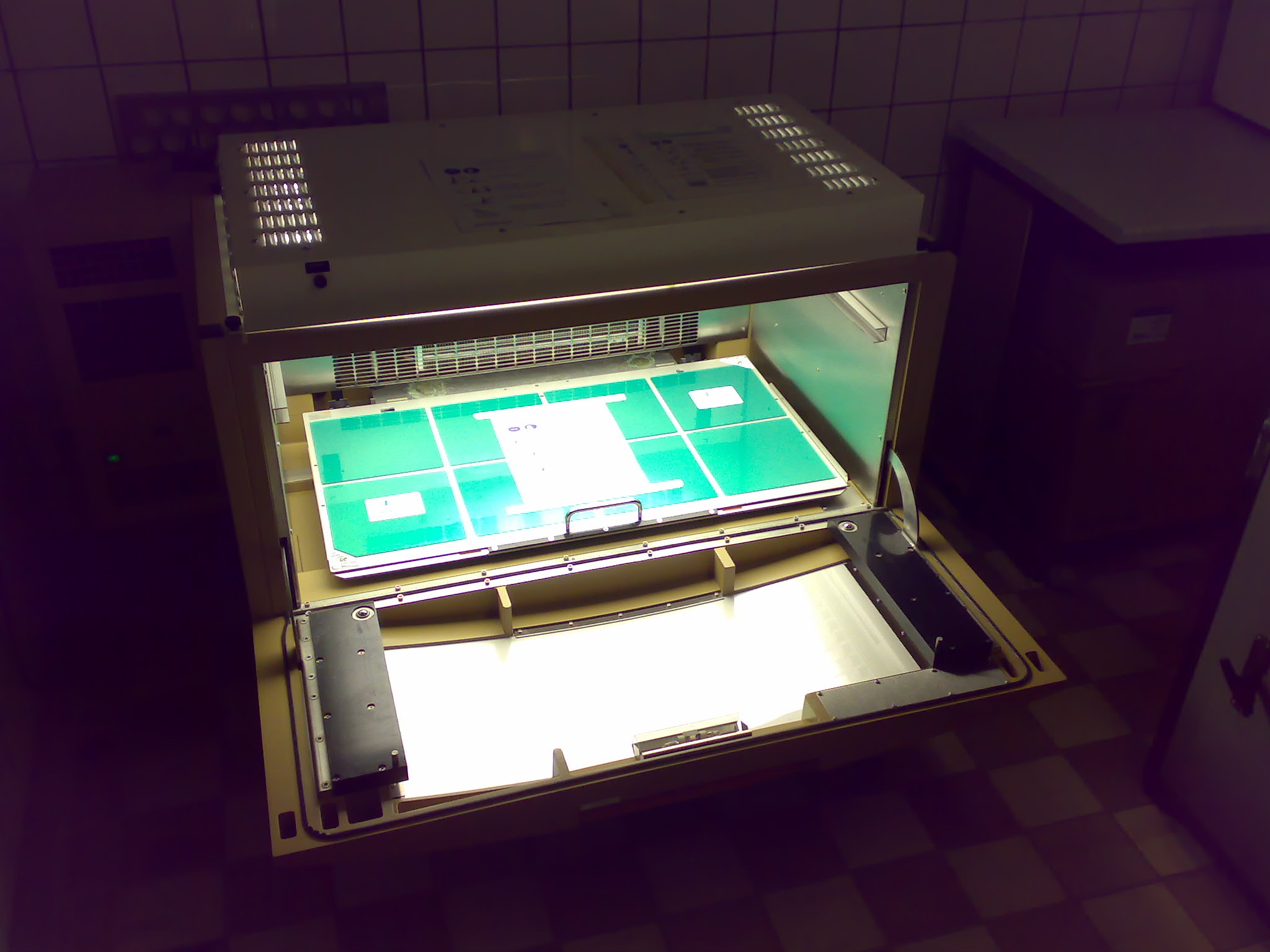 Incubation shaker with photo-illumination, UV sterilization